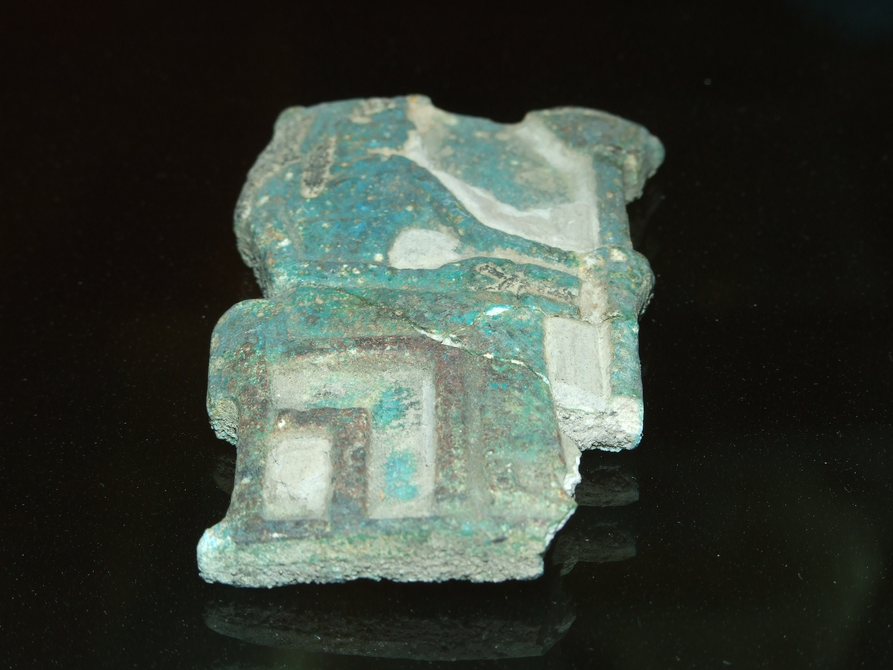 Náprstek Museum, National Museum in Prague